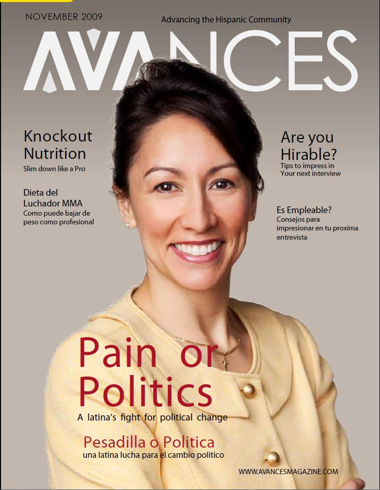 Tiffany Estrella Attwood on the November 2009 cover of Avances magazine